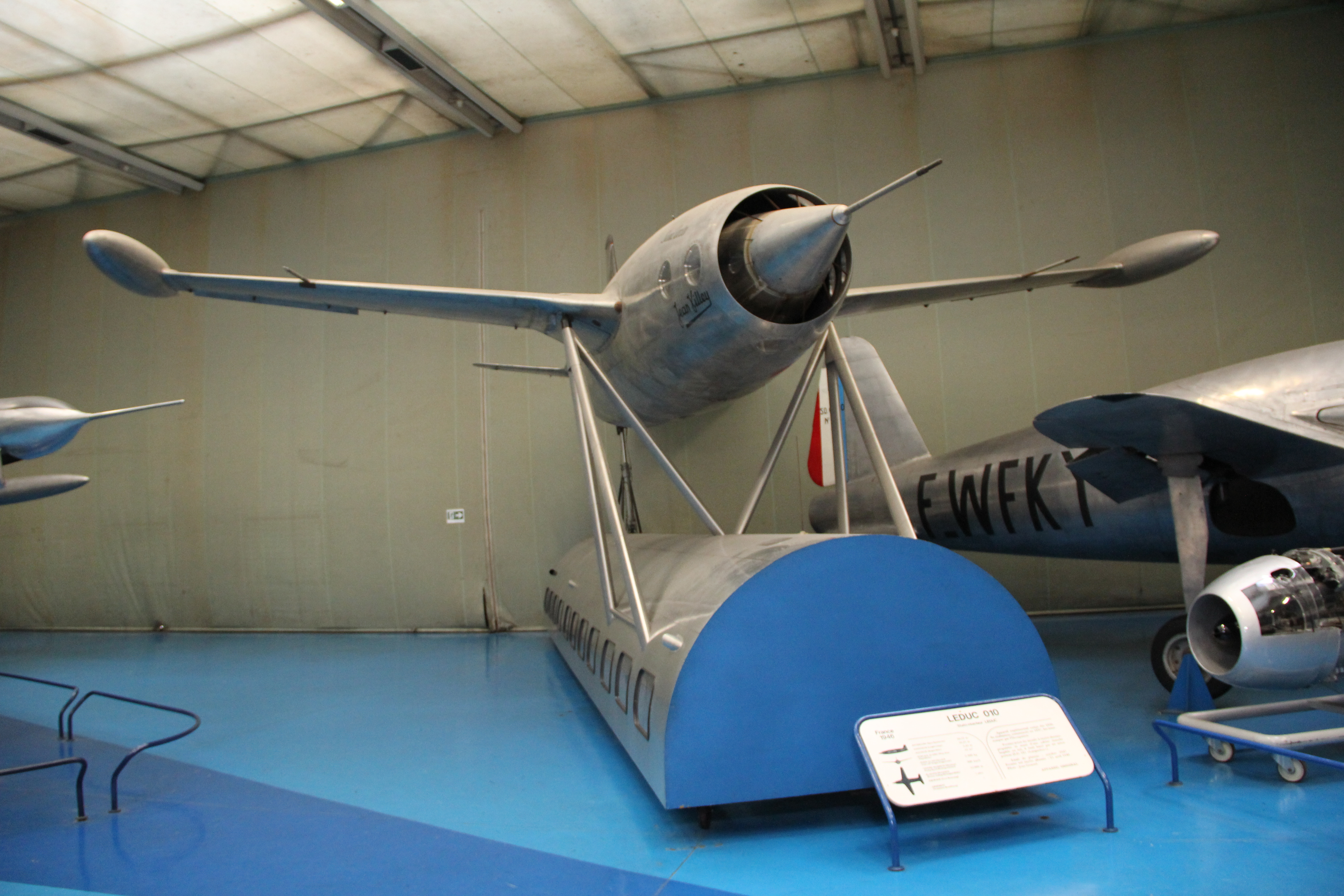 Leduc 010 Ramjet Prototype